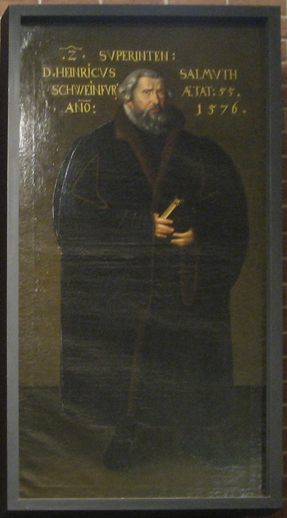 Heinrich Salmuth (1522-1576); oil on canvas, Thomaskirche Leipzig, 2.02*1.04 m, painted 1614 of Johann von der Perre († 1621)